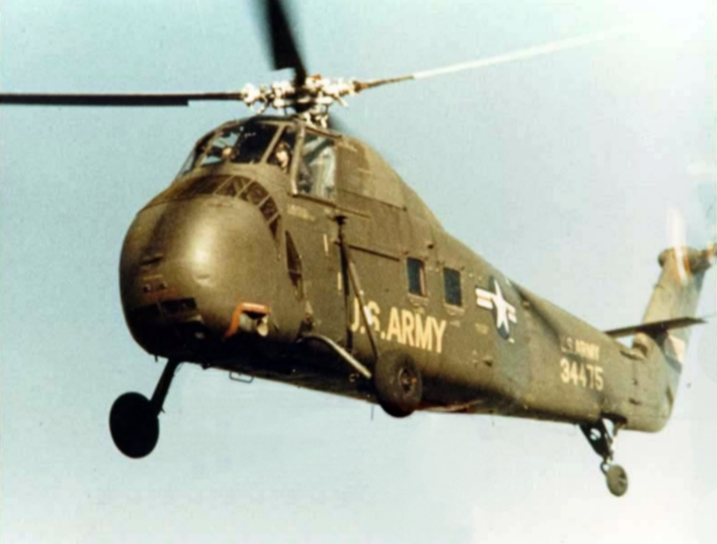 A U.S. Army Sikorsky H-34A Choctaw (s/n 53-4475) in flight. This aircraft was later converted to an JH-34A and again to an CH-34C. After service in Vietnam it was retired to the MASDC as HD0014 on 18 September 1969.